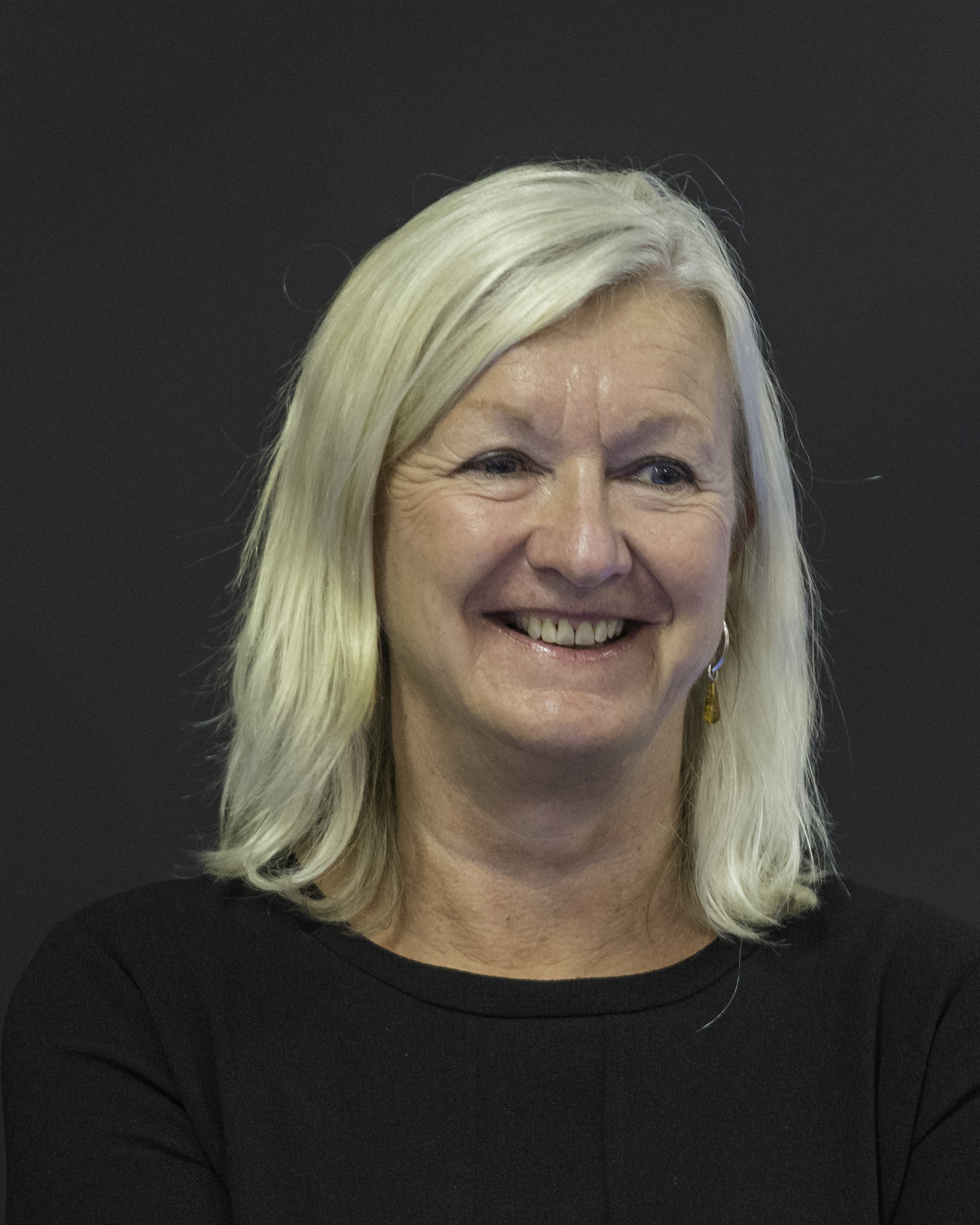 Cecilia Krönlein at Göteborg Book Fair 2015